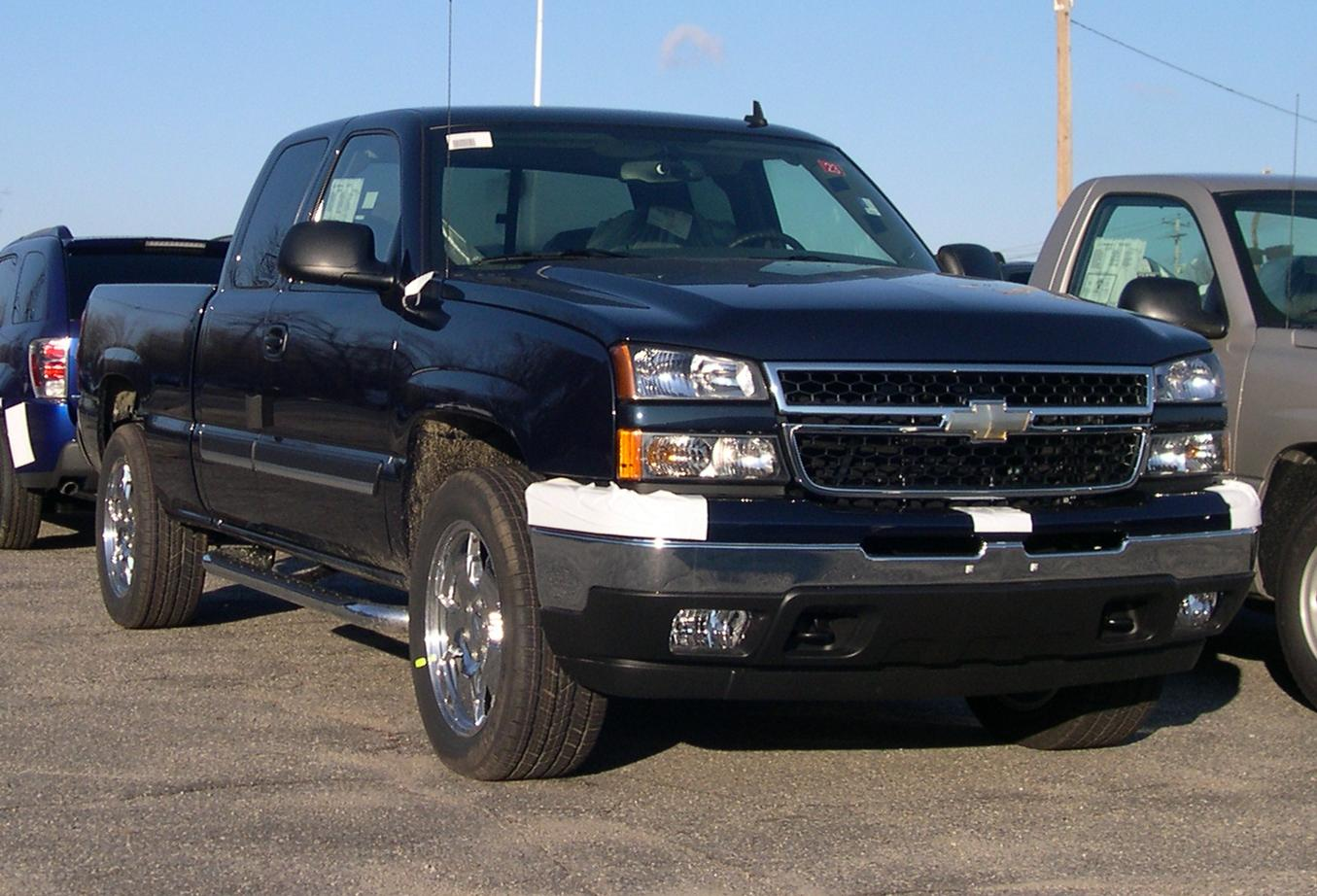 2006 Chevrolet Silverado (note new-for-2006 split grille)